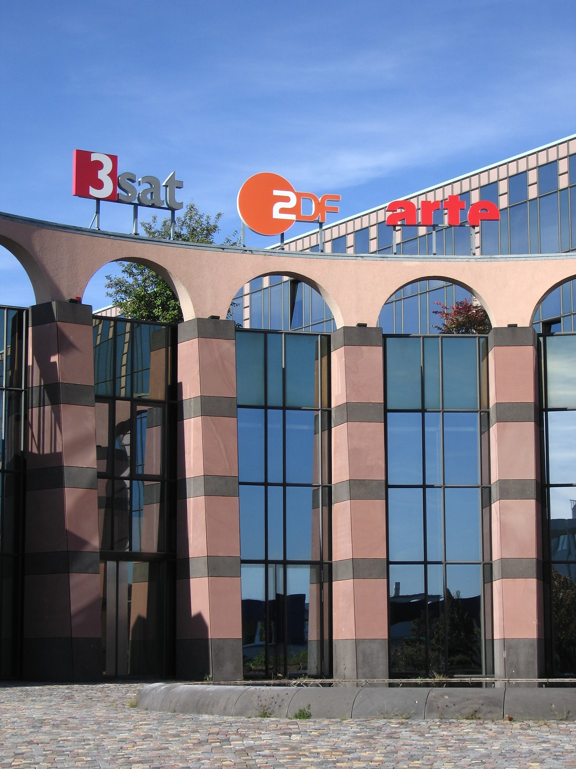 ZDF broadcasting center 2, Mainz-Lerchenberg, Germany.